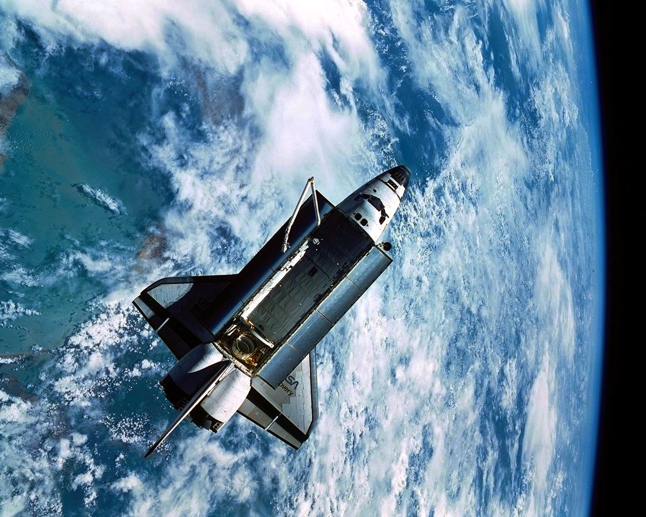 The space shuttle orbiter Discovery seen from the IMAX camera aboard the SPAS-ORFEUS satellite during mission STS-51 in September 1993.